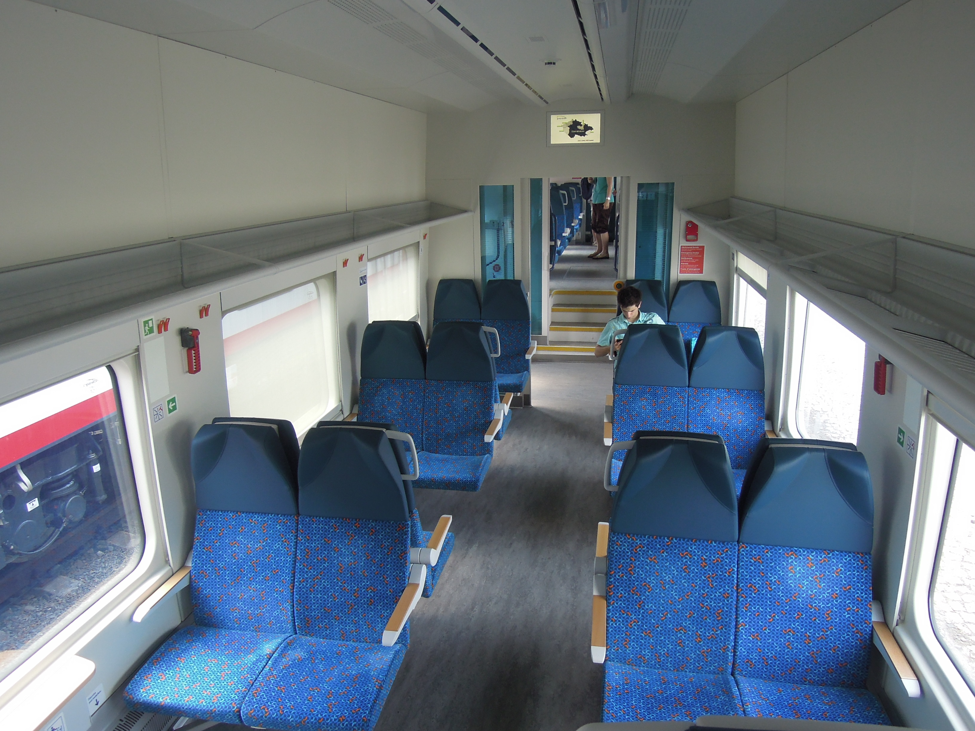 Diesel multiple unit class 844 RegioShark of České dráhy at the Czech Raildays 2013 trade fair in Ostrava, Czech Republic